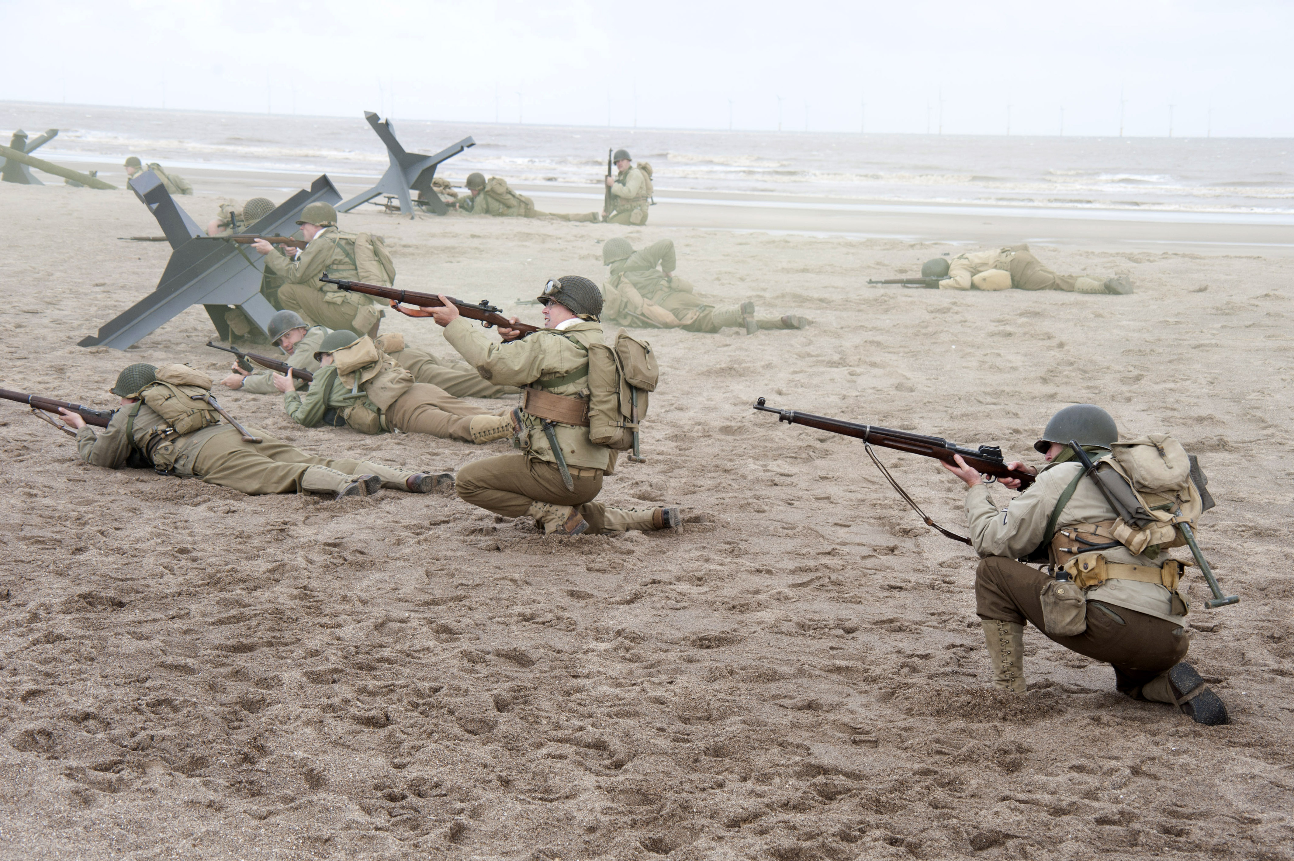 Re-enactment groups staging a recreation of the landings on Omaha Beach, 6 June 1944. Here the US forces of the 1st Infantry Division and 2nd Ranger Battalion pitch against the defending German troops of the 352nd Infantry Division.